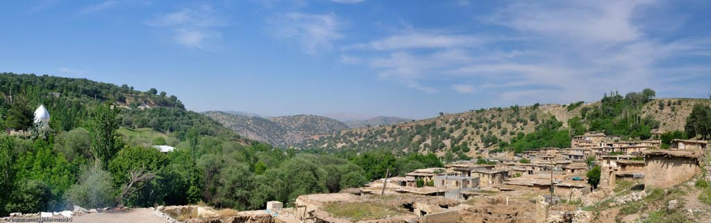 Kareyak Village, beautiful village in Dena County of Kohgiluyeh and Boyer-Ahmad Province.